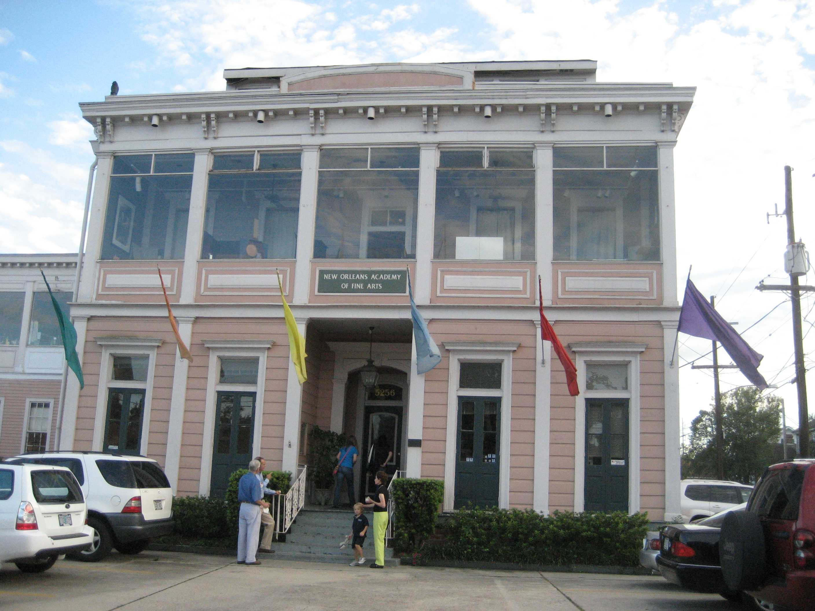 New Orleans. Academy of Fine Arts on Magazine Street at evening of art show.